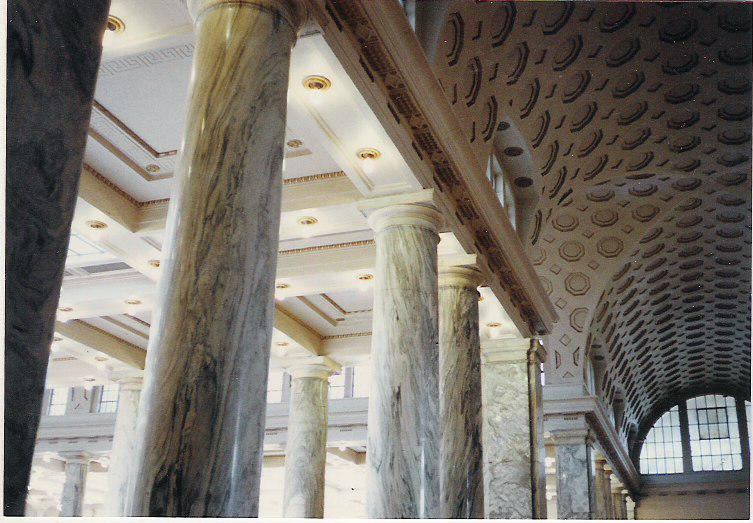 example of the interior architectural features (columns & arches)